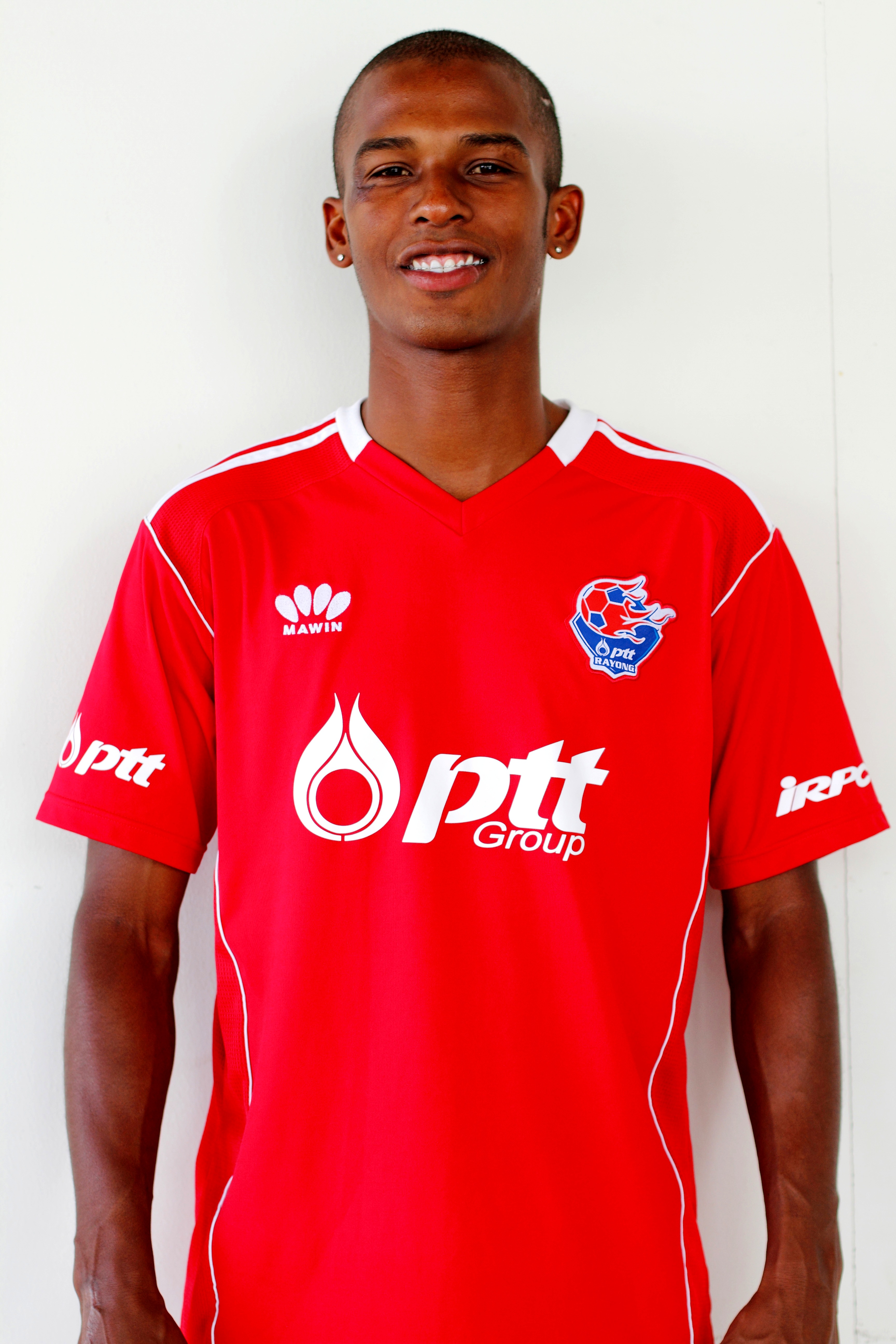 Football Player